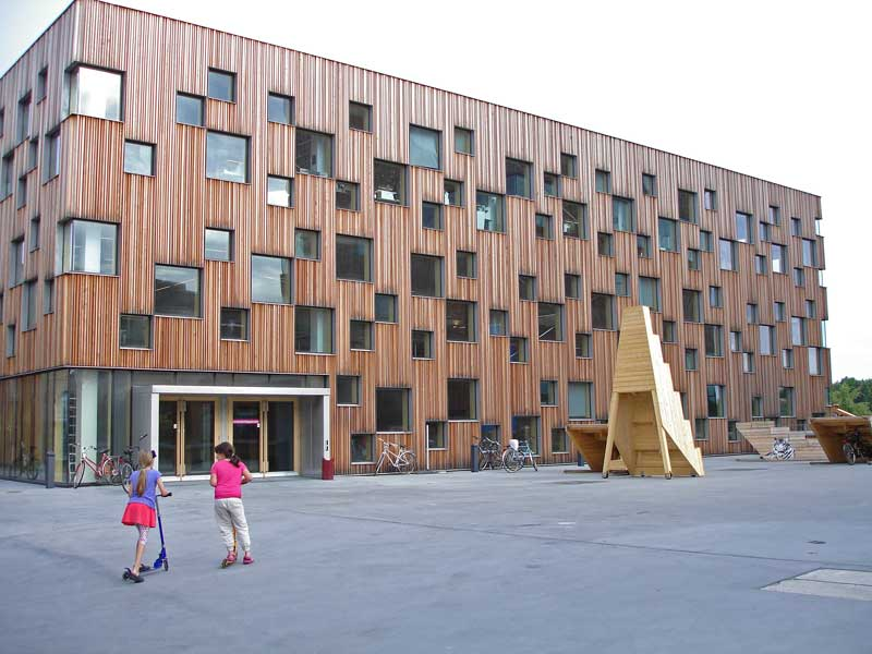 Umeå School of Architecture, created by two architect companies: Swedish White and Danish Henning Larsen Architects.